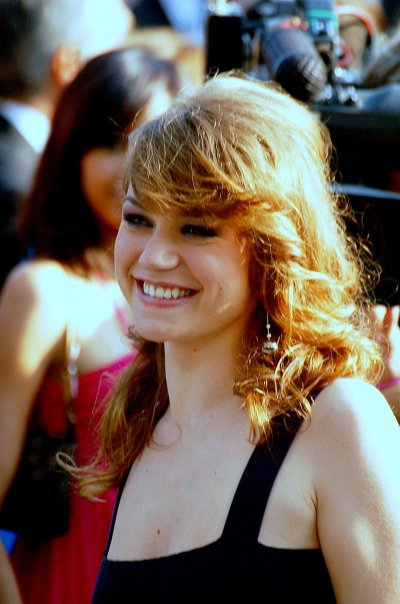 Émilie Dequenne at the Cannes Film Festival.